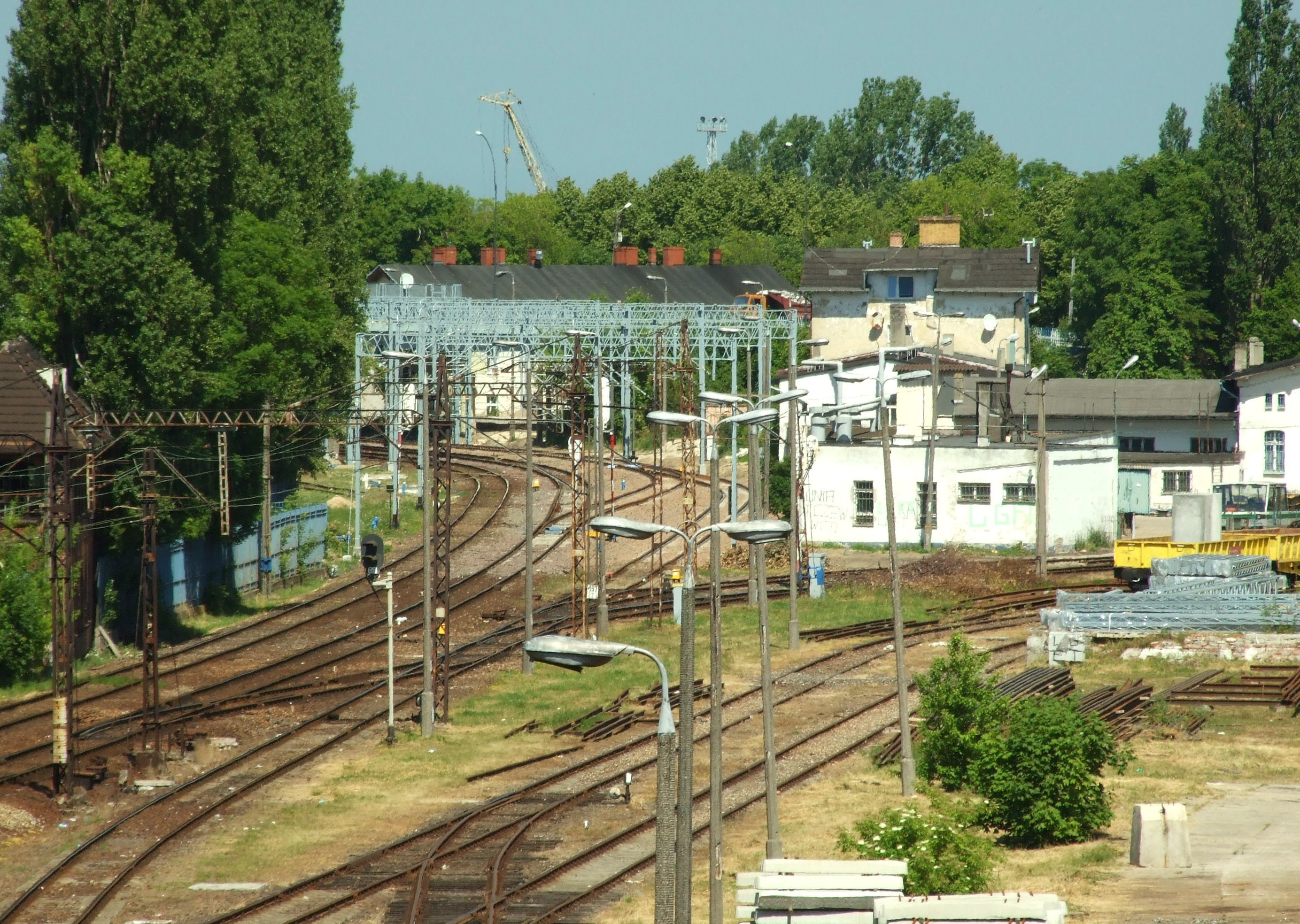 Tczew rail hub - the track from south of Poland to Tczew main train station. Pomeranian voivodeship, Poland